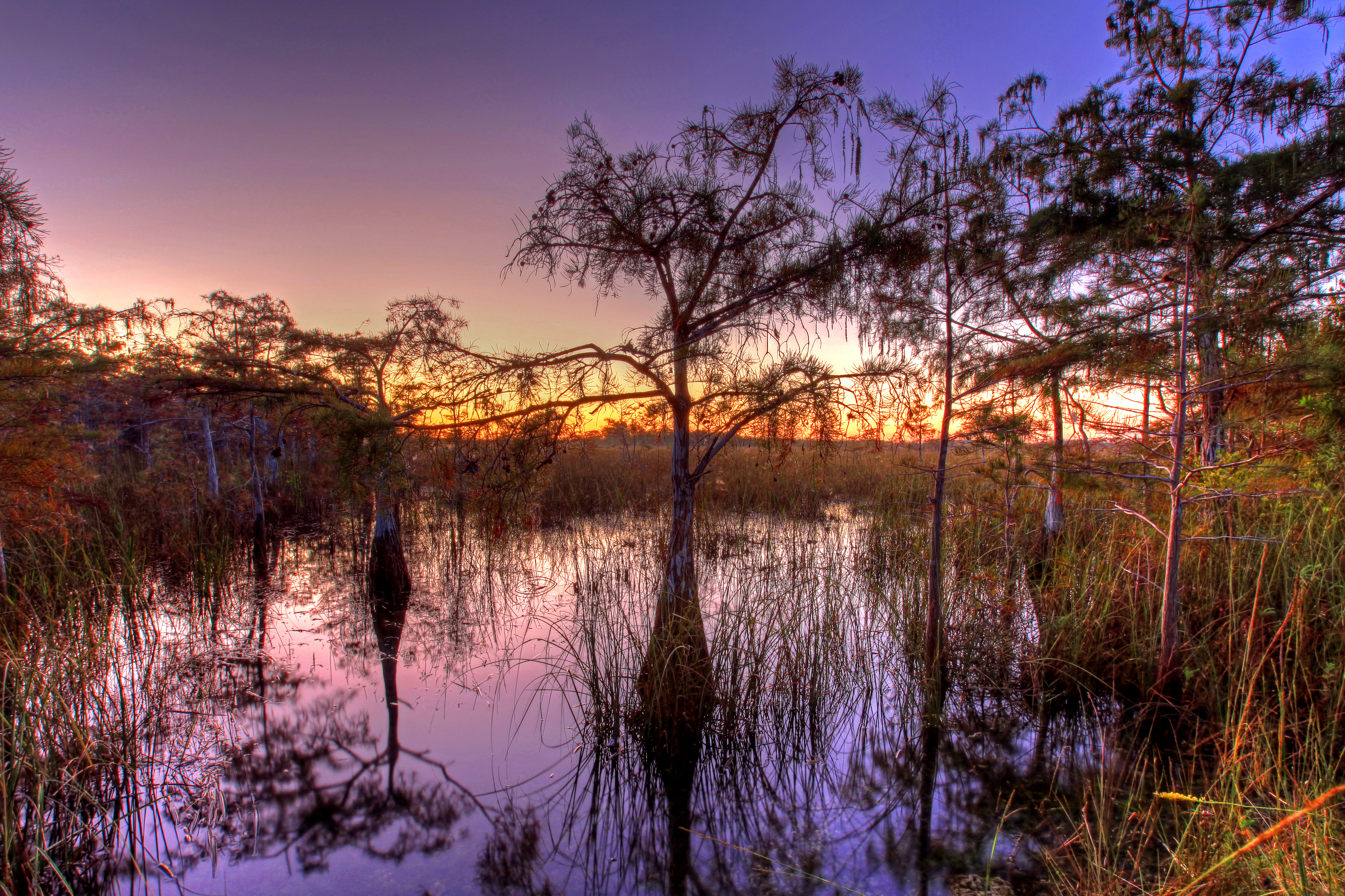 Cypress sunset, NPSphoto, G.Gardner